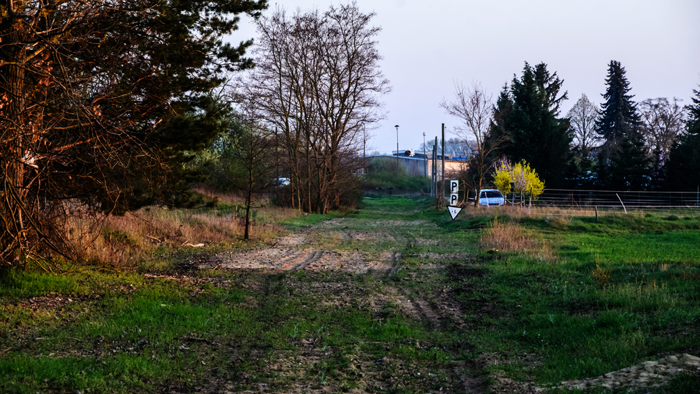 former railway line Güsen-Jerichow No. 6884